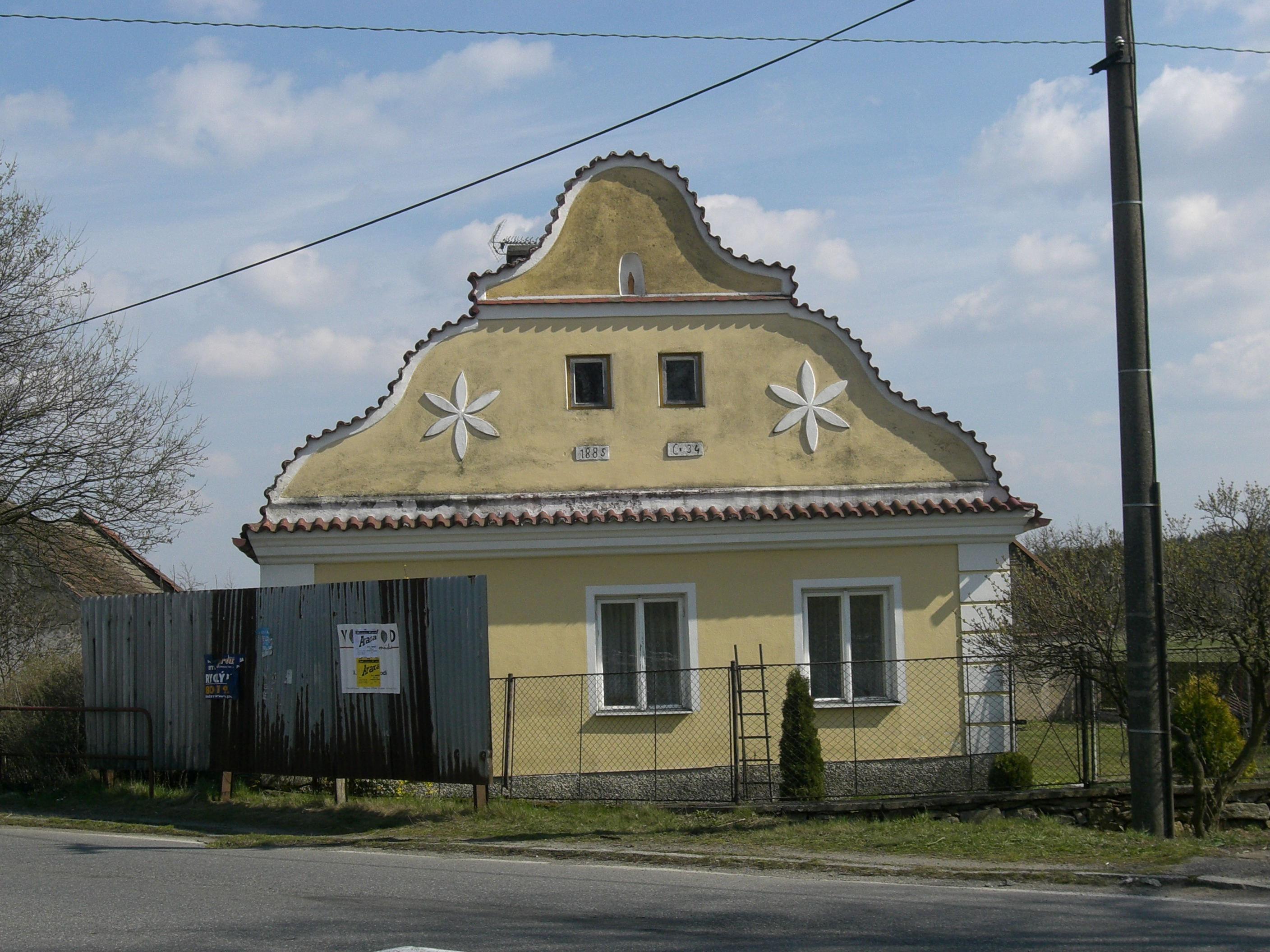 Křenovice village in the Písek District, Czech Republic. Baroque house.